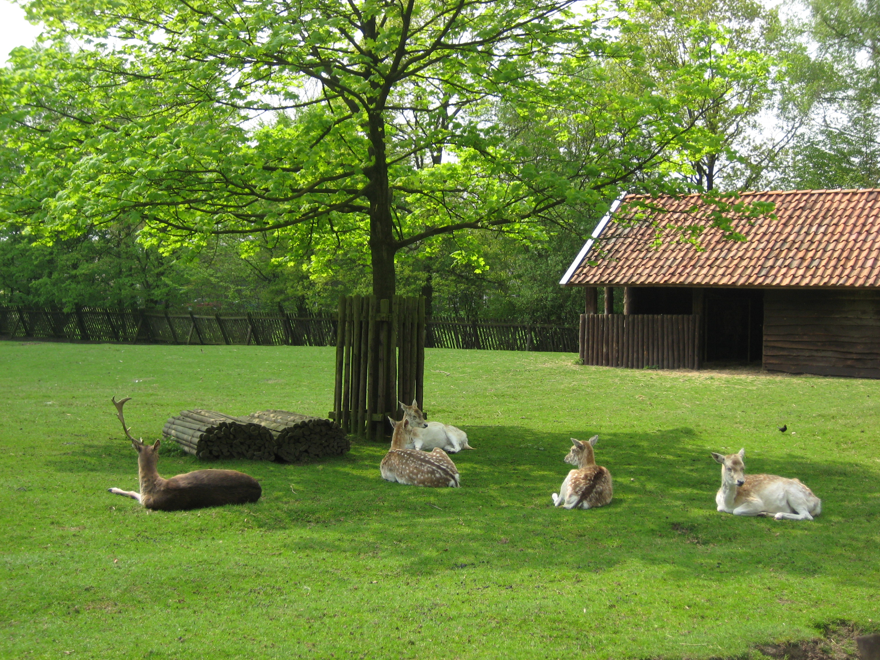 Deer park, the Netherlands